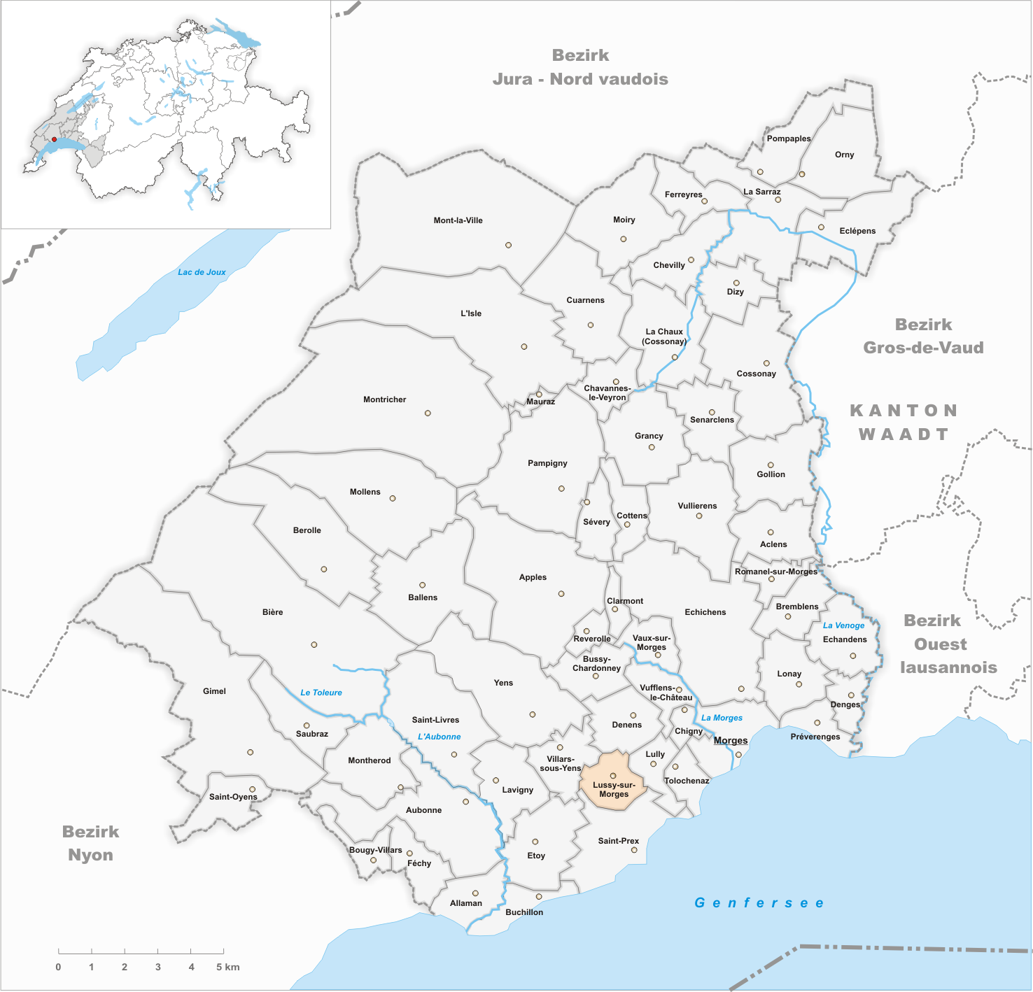 Municipality Lussy-sur-Morges